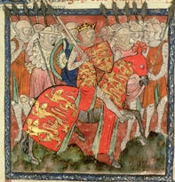 King William I mounted, with sword and shield, accompanied by knights and soldiers. The arms of England appear on his surcoat, shield, and the trappings on his horse